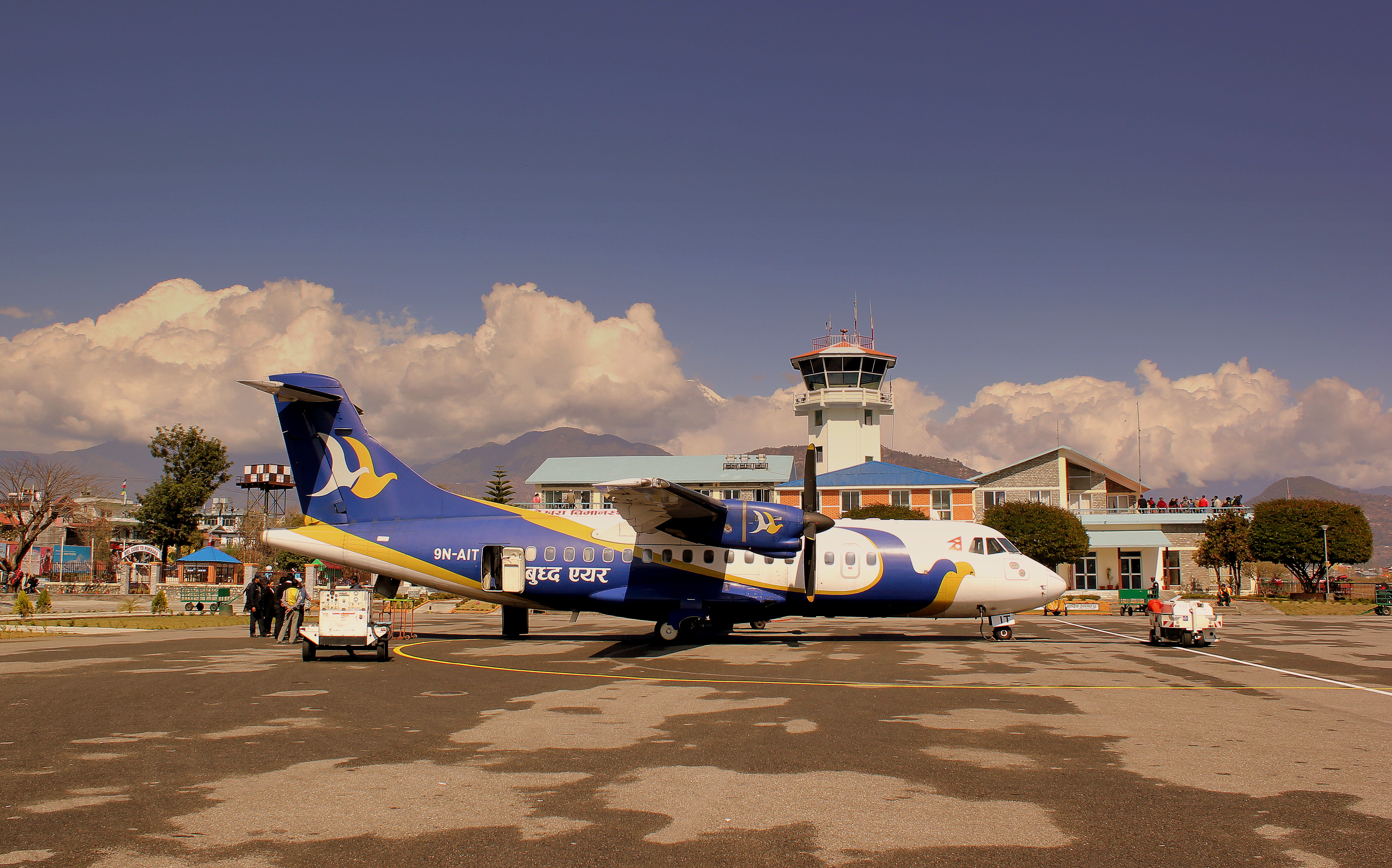 BUDDHA AIR ATR42 9N-AIT AT POKHARA AIRPORT NEPAL FEB2013